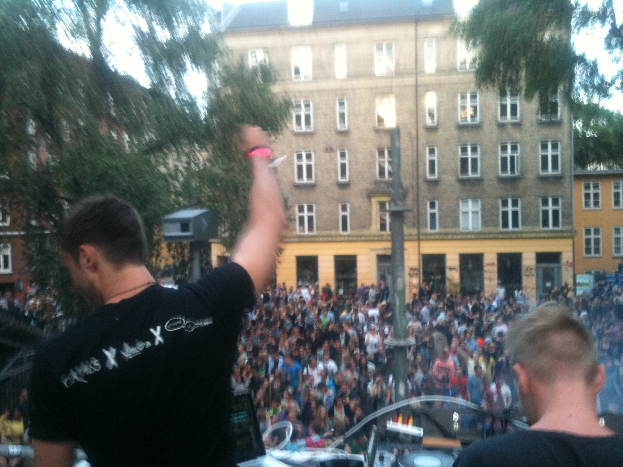 Party Harders hosting block party at Ravnsborggade in Copenhagen